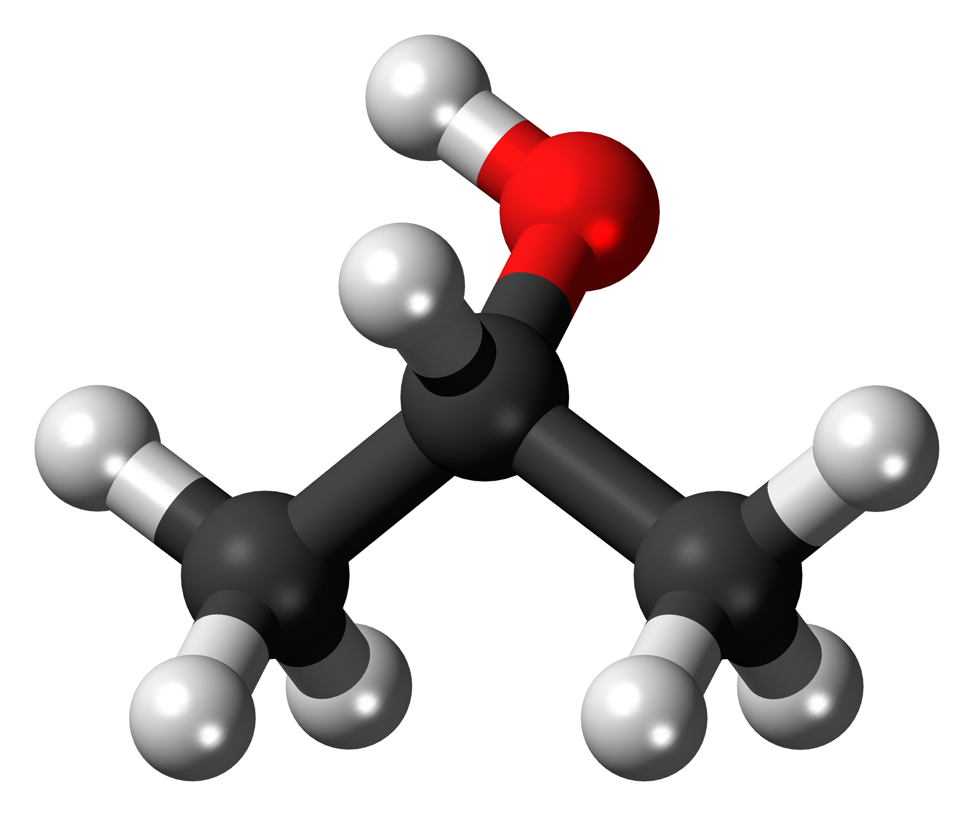 Ball-and-stick model of the propan-2-ol molecule, widely used in cleaning fluids and rubbing alcohol. Also known as 2-propanol and isopropanol. Colour code: Carbon, C: black Hydrogen, H: white Oxygen, O: red